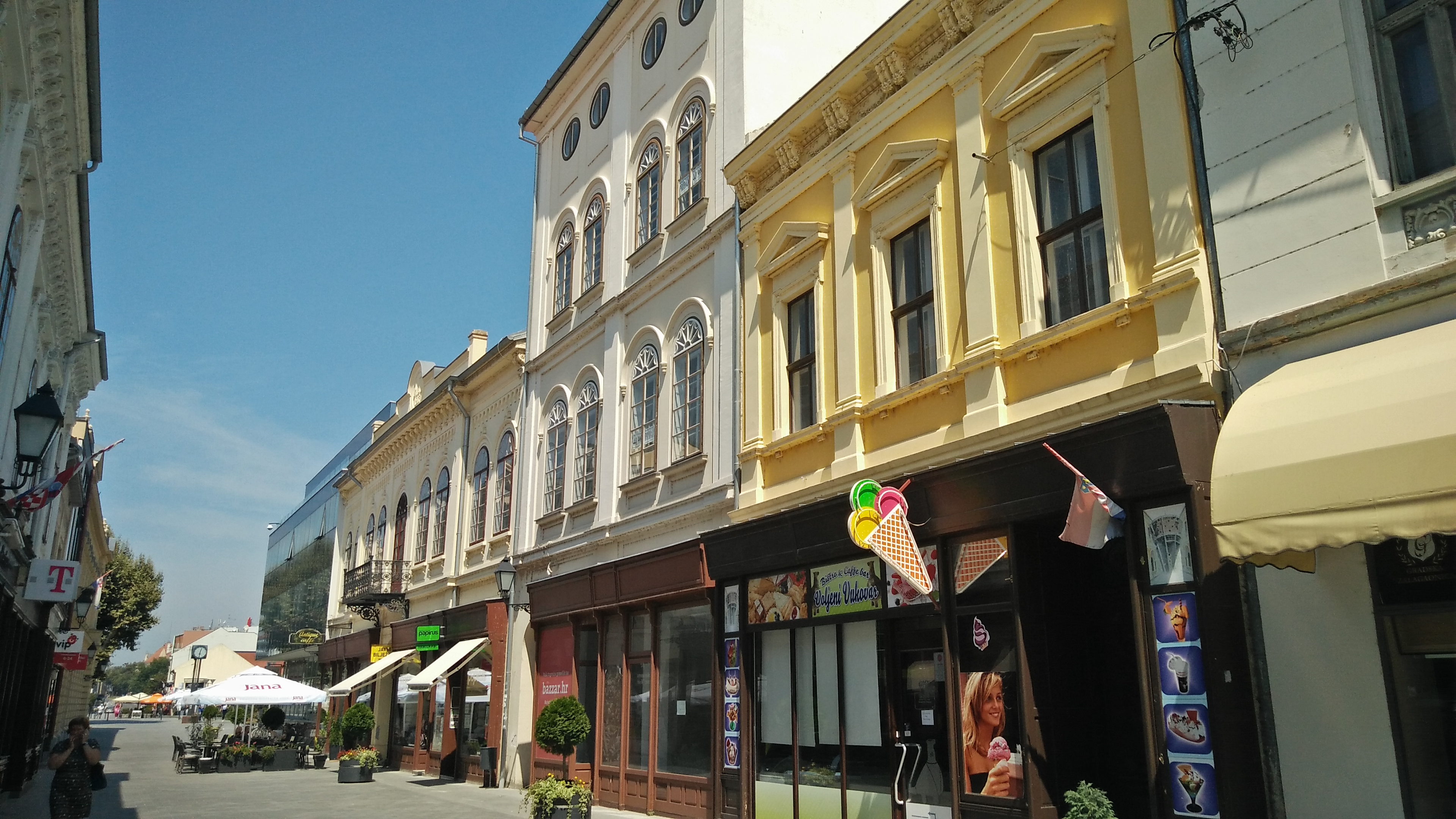 Street in Vukovar's downtown. August 2018